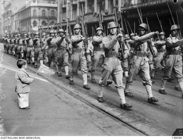 Melbourne, Vic. 1943-06-14. Watched by a small boy waving an Australian flag, troops of the Netherlands East Indies Army move along Swanston Street during the United Nations Flag Day march through the city.